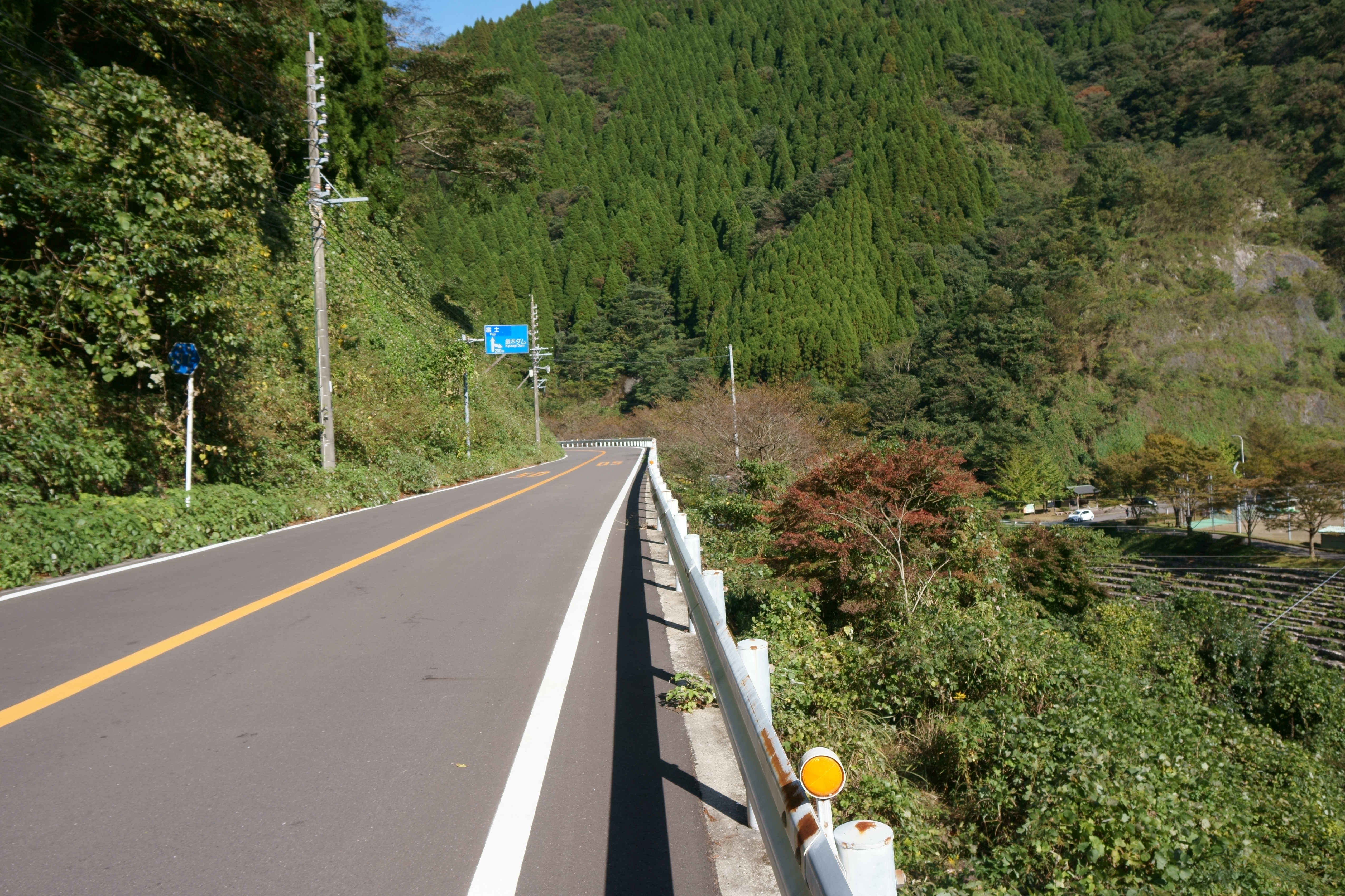 Saga Prefectural Road No.37 in Kyūragi-machi Hirose, Karatsu, Saga.